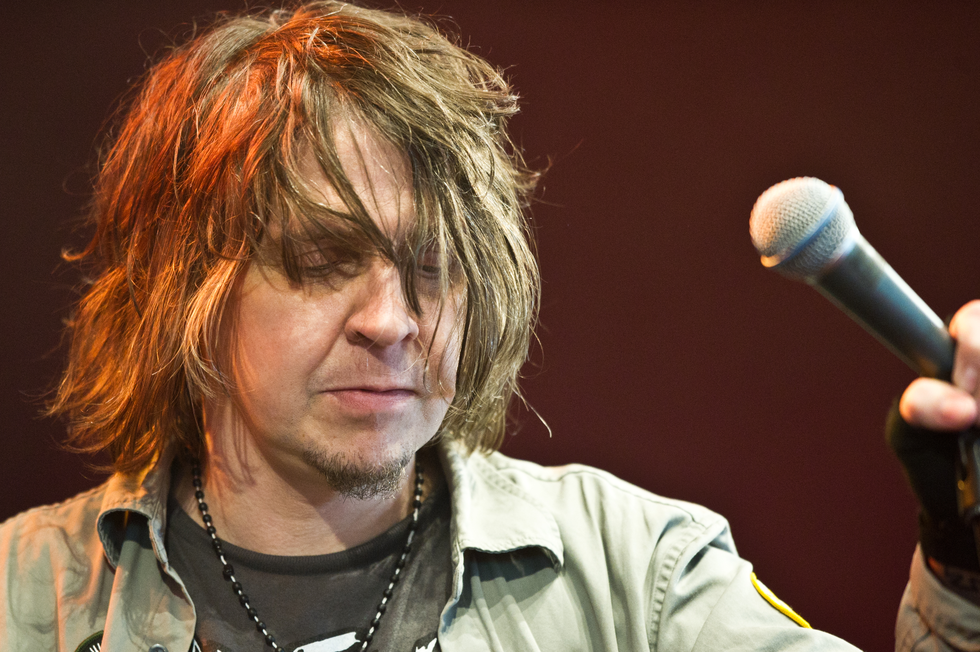 Mike Williams - Eyehategod - Roskilde Festival.